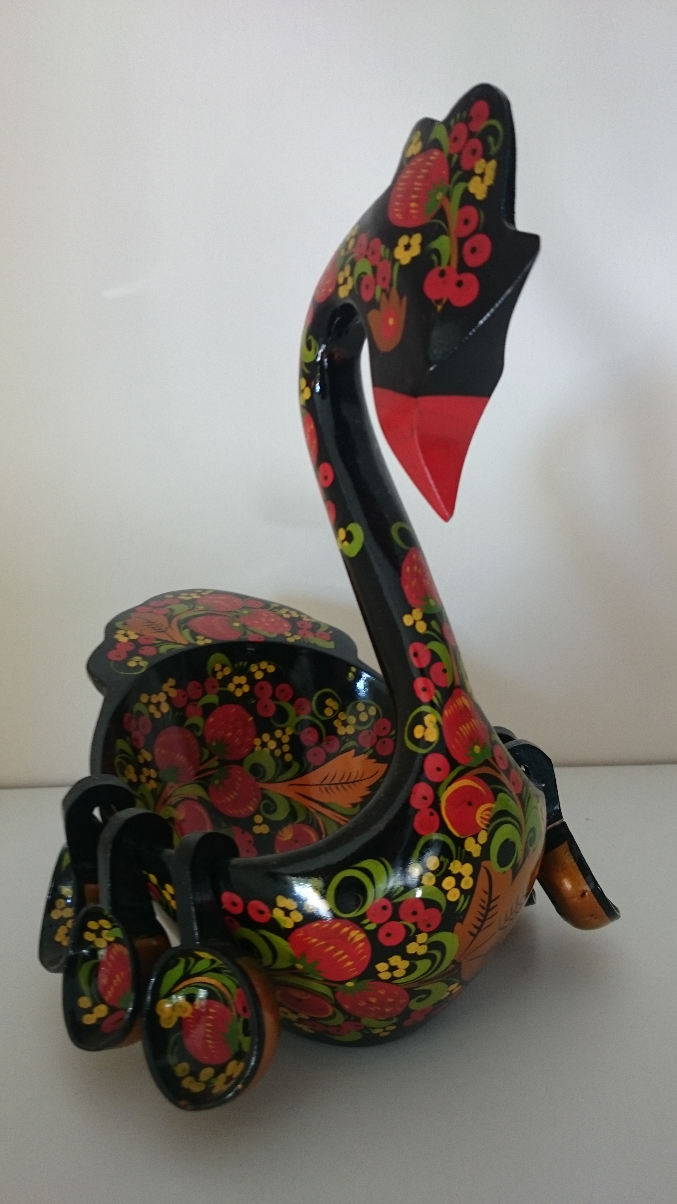 Khokhloma painting on wooden tableware. In spite of the filename (Жар-пти́ца), it isn't clear that this represents the Firebird. The object of the type known as Ковш-лебедь (swan-ladle), a wooden ladle in the form of a swan, with a collection of smaller spoons. For a comparable object representing Firebird, see e.g. here.